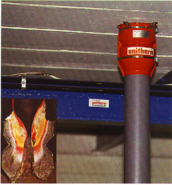 Palusol, sodium silicate based instumescent, used in a German plastic pipe device.